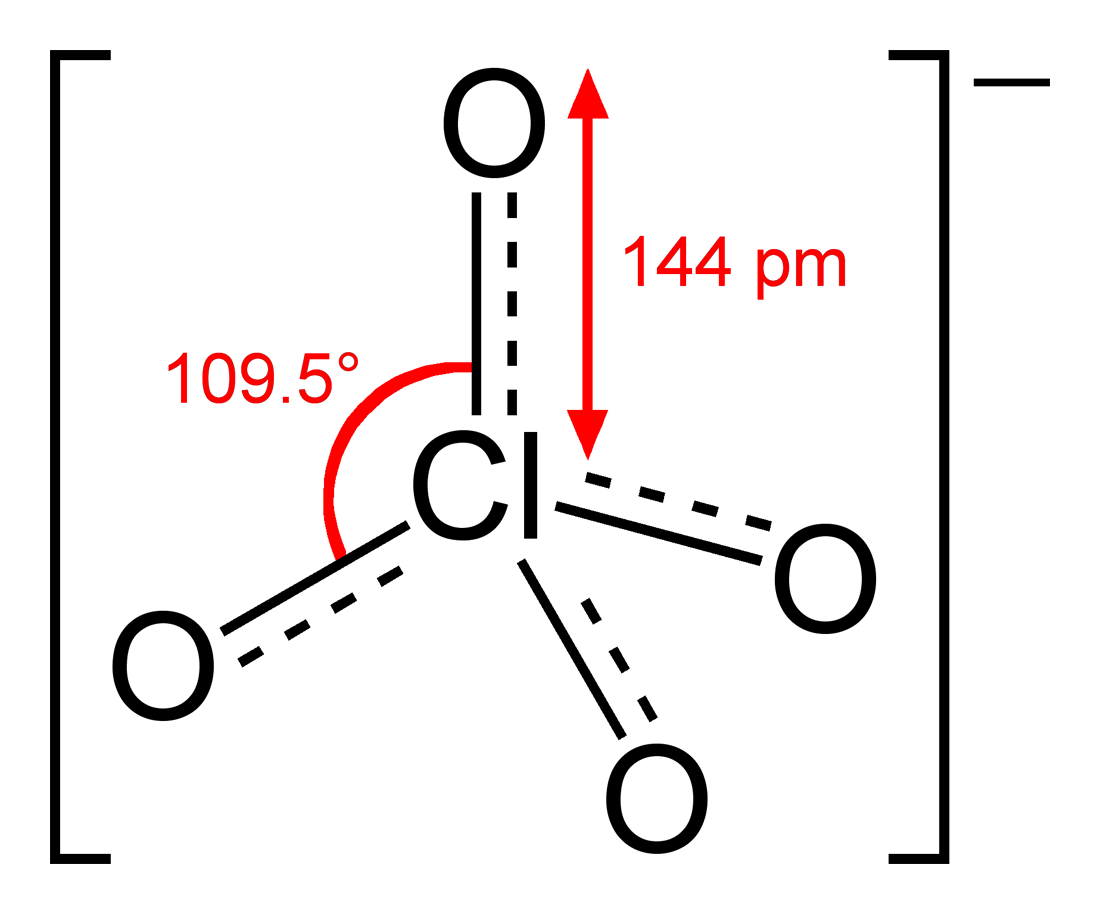 Perchlorate ion with dimensions shown